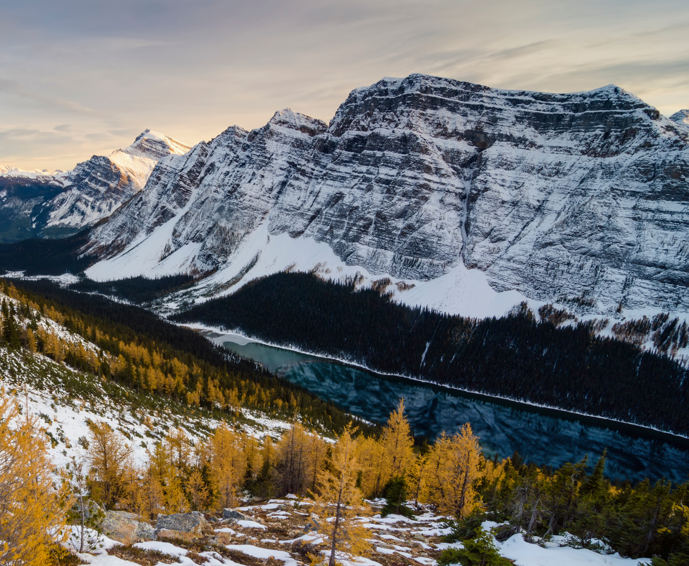 Boom Mountain above Boom Lake, Banff Park, Canada